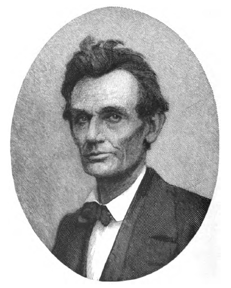 Timothy Cole wood engraving from a May 20, 1860 ambrotype of Lincoln, two days following his nomination for President. Frontispiece from The Autobiography of Abraham Lincoln (1915)